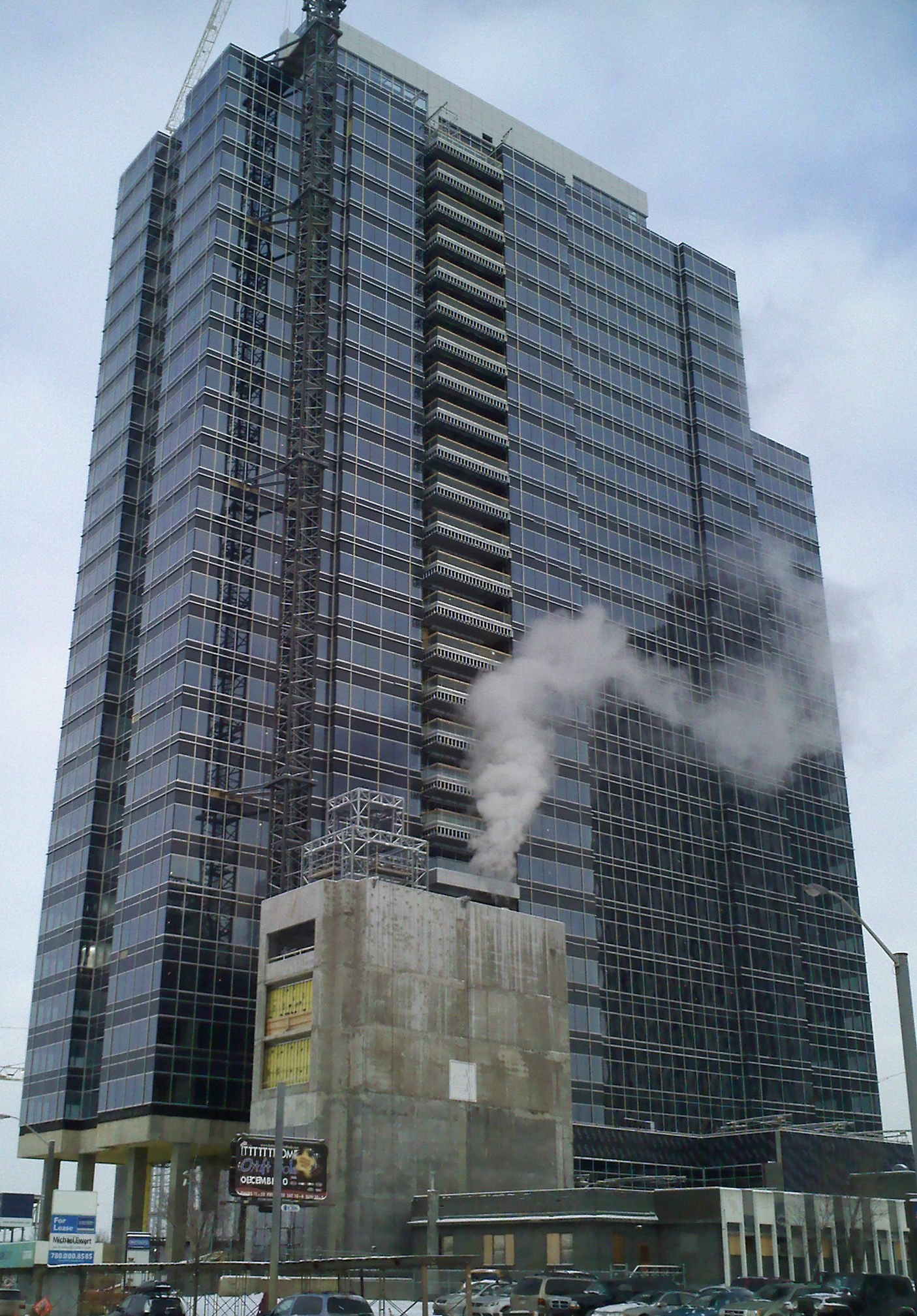 Southwest side of EPCOR Tower, Edmonton, from 101 Street & 104 Avenue.